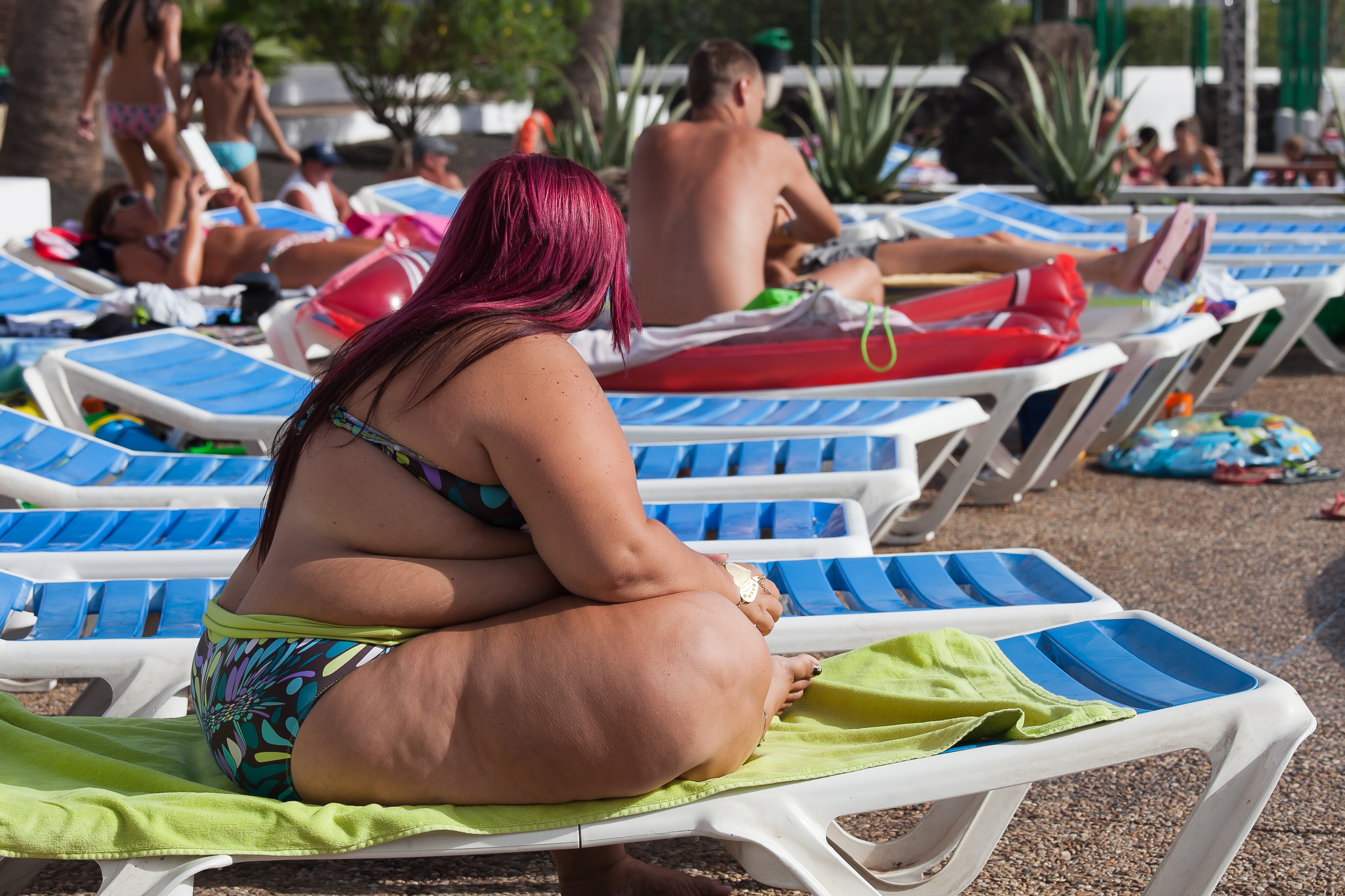 Obesity, an example of disease shown by the unknown obese woman wearing a bikini for sunbathing.